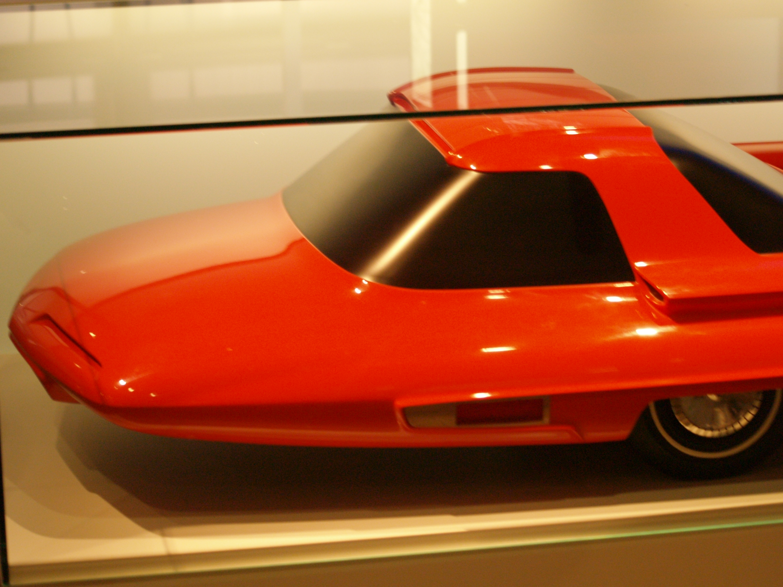 Ford Nucleon, a concept car (1958) in the German Museum of Technology in Berlin